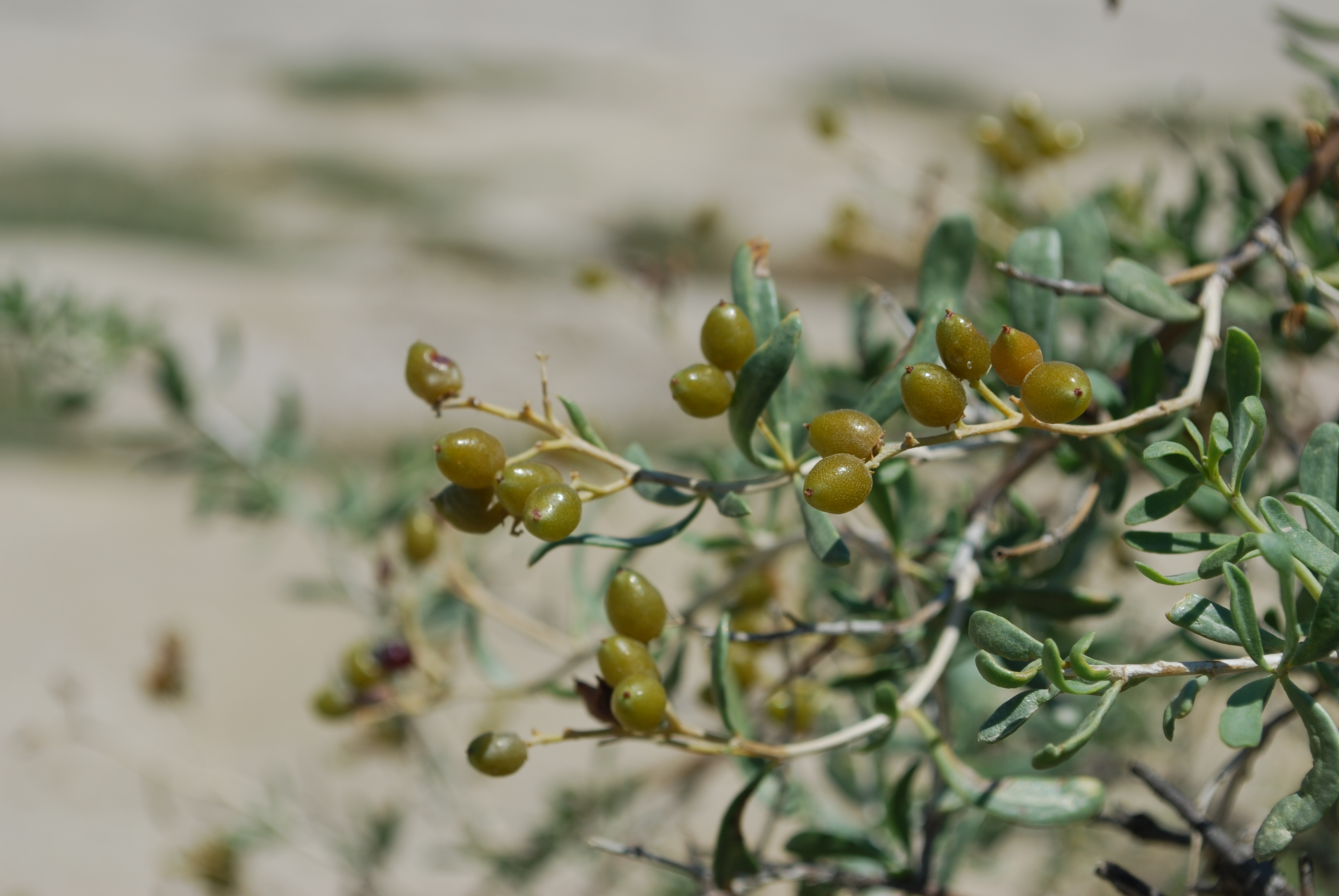 Nitraria schoberi fruits, photo taken in the Mud Volcanoes reservation in Buzău County, Romania